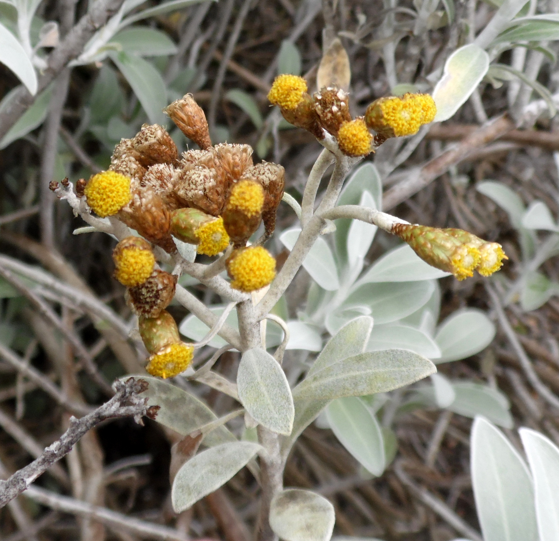 Helichrysum obconicum in Jardín Botánico Canario Viera y Clavijo